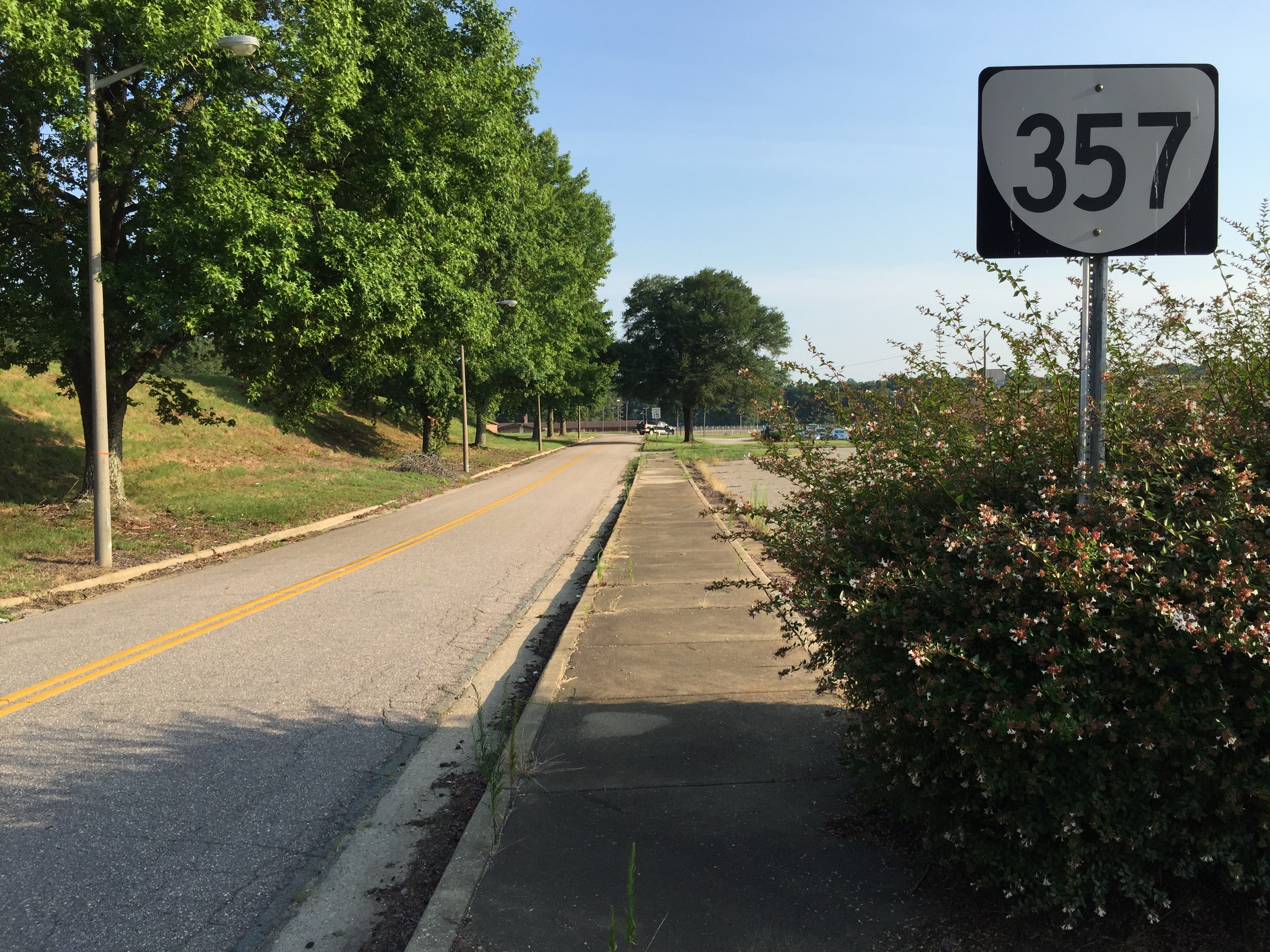 View north along Virginia State Route 357 (N Road) at E Road at the Southside Virginia Training Center just west of Petersburg in Dinwiddie County, Virginia